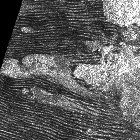 Bilbo Colles on Titan, surrounded bu dune fields. Radar image by Cassini, made during flybys T25 (February 22, 2007) and T28 (April 10, 2007). Size of the image is 160×160 km, north is up. Black region in upper left was out of radar scope.